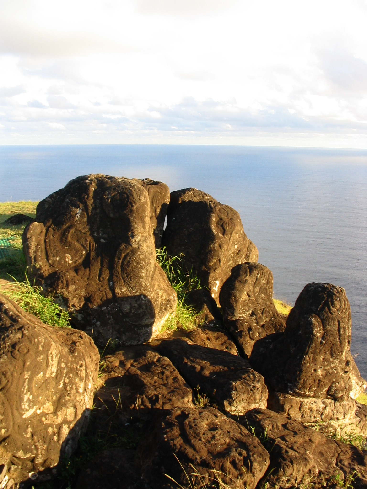 Petroglyphs at Orongo, Easter Island, Chile